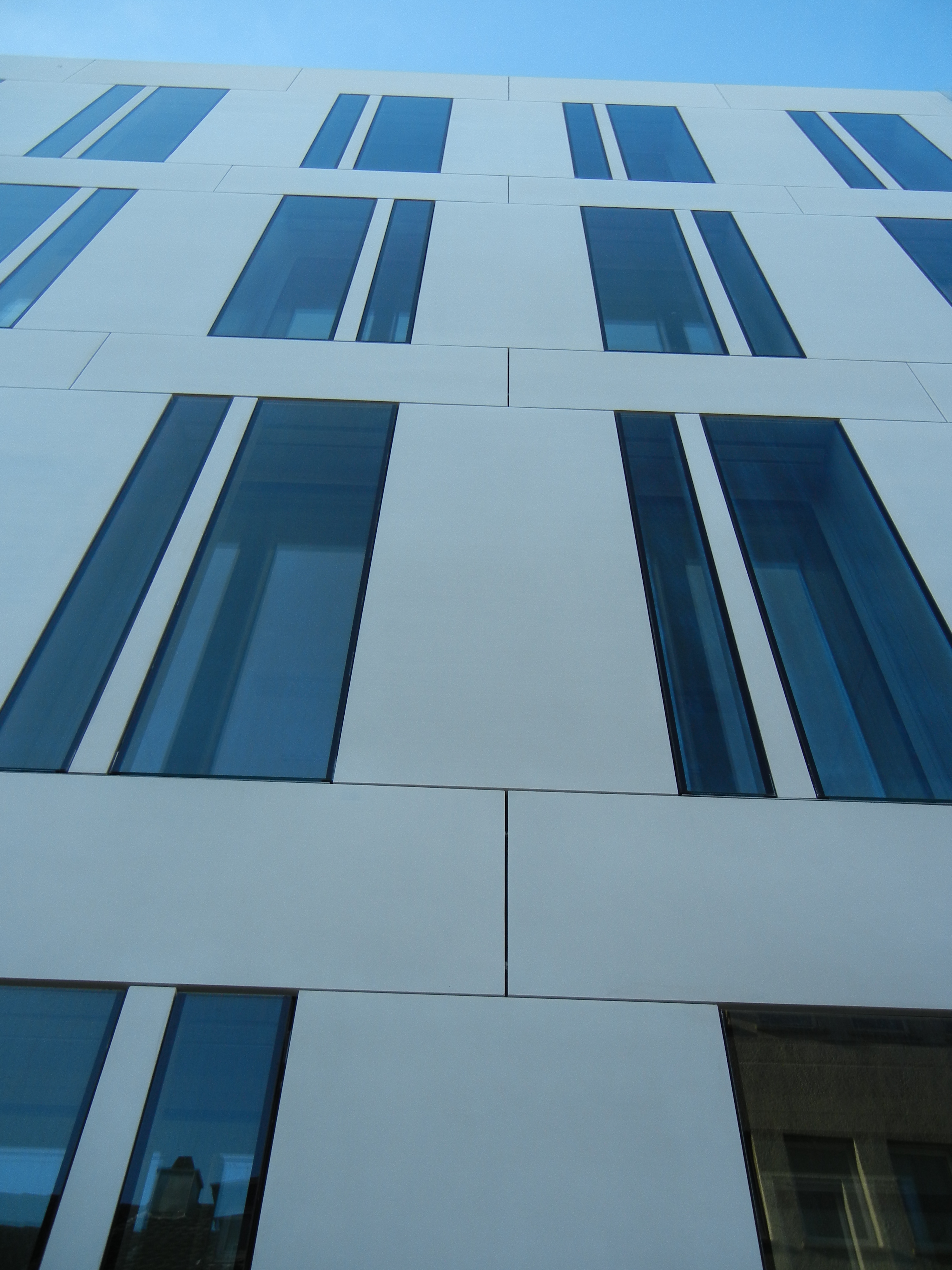 Facade panels of a bank building in Krefeld/Germany made of white unreinforced UHPC